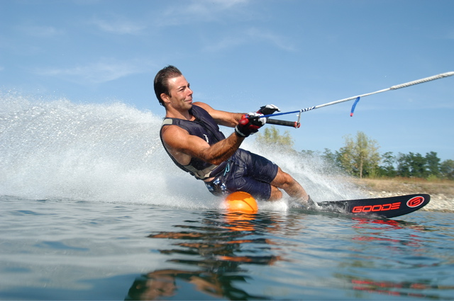 A nice photo taken from a session in Recetto (Novara, Italy)